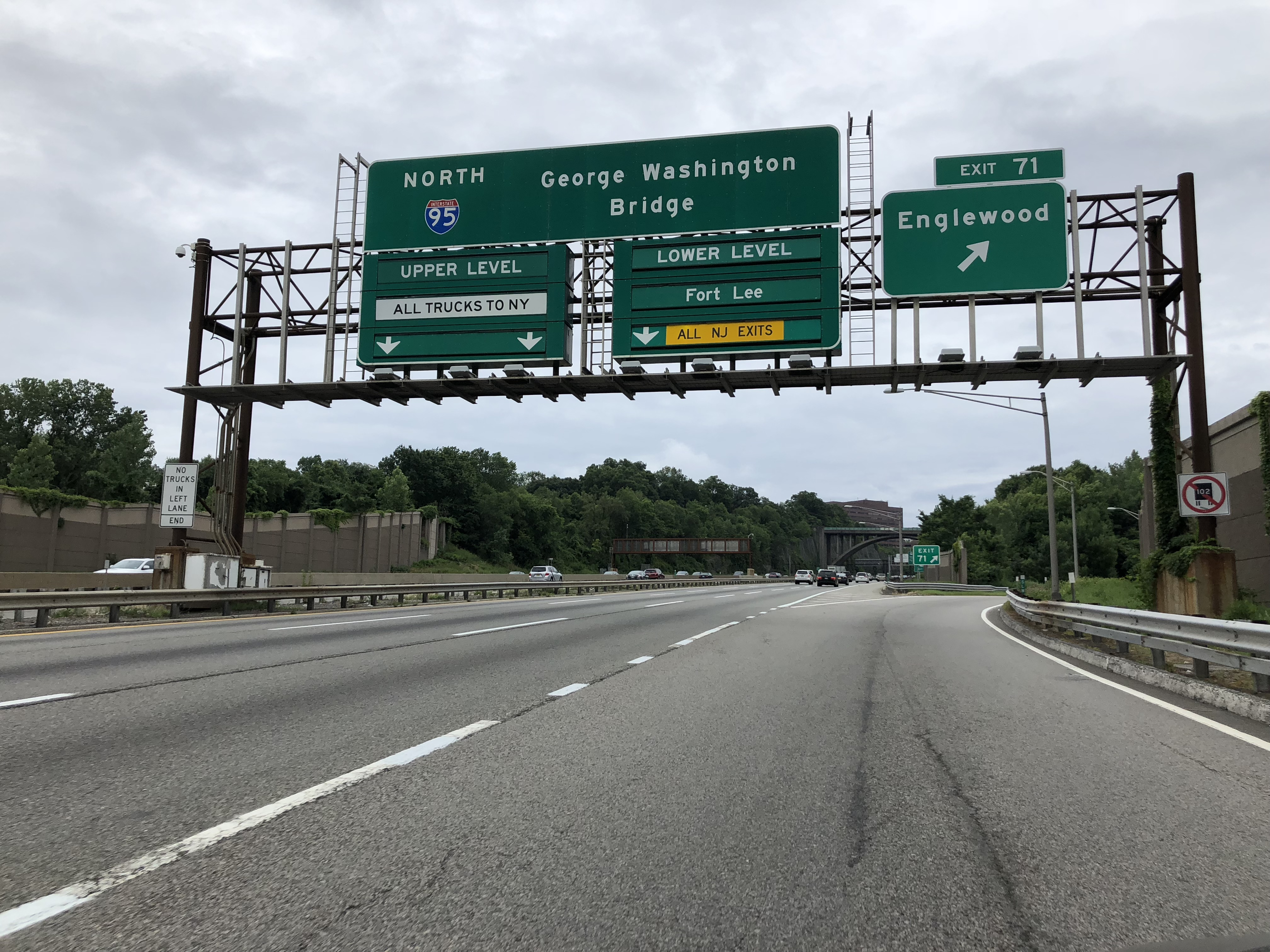 View north along the local lanes of Interstate 95 (Bergen-Passaic Expressway) at Exit 71 (Englewood) on the border of Englewood and Leonia in Bergen County, New Jersey